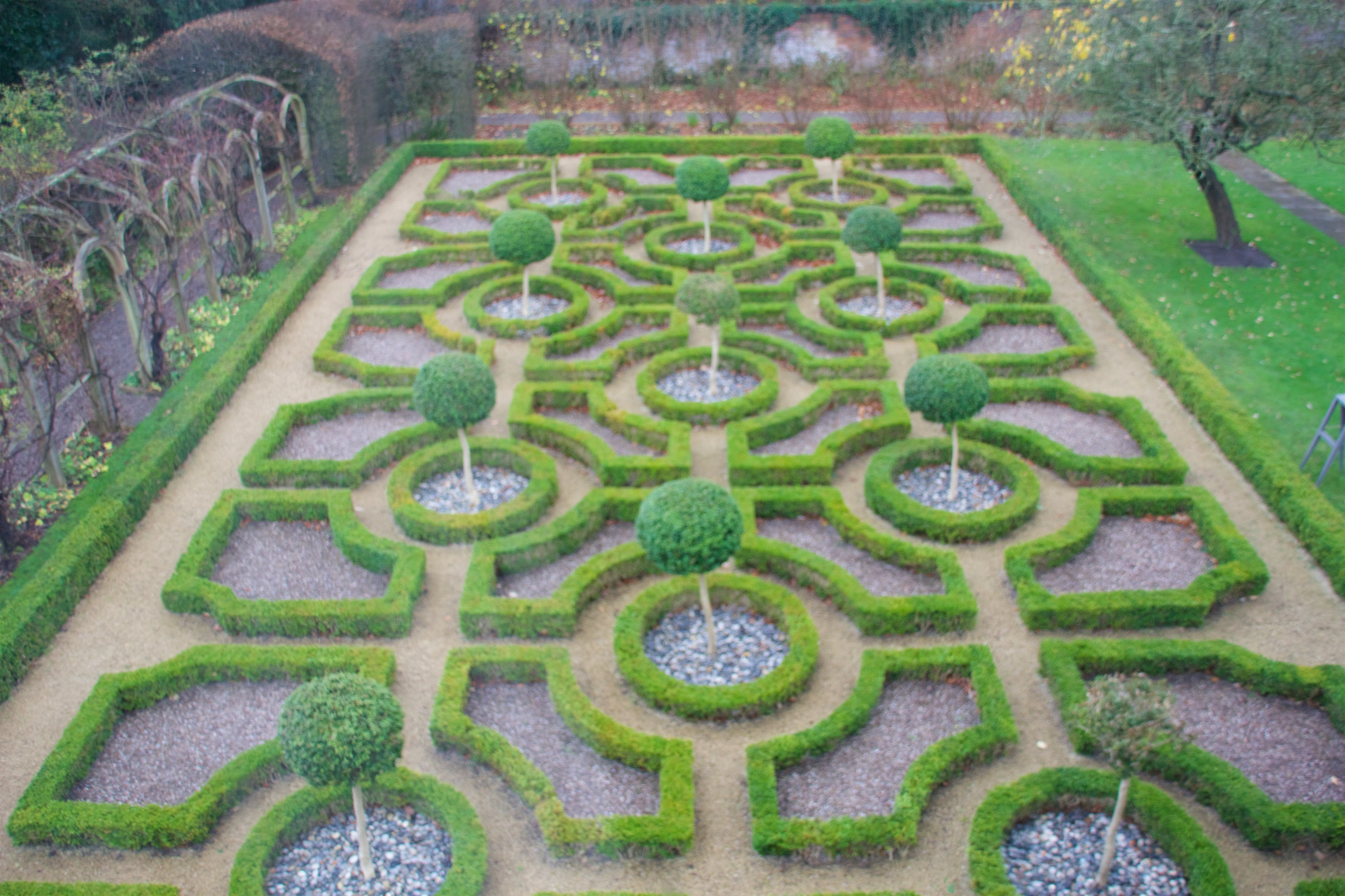 Moseley Old Hall, United Kingdom